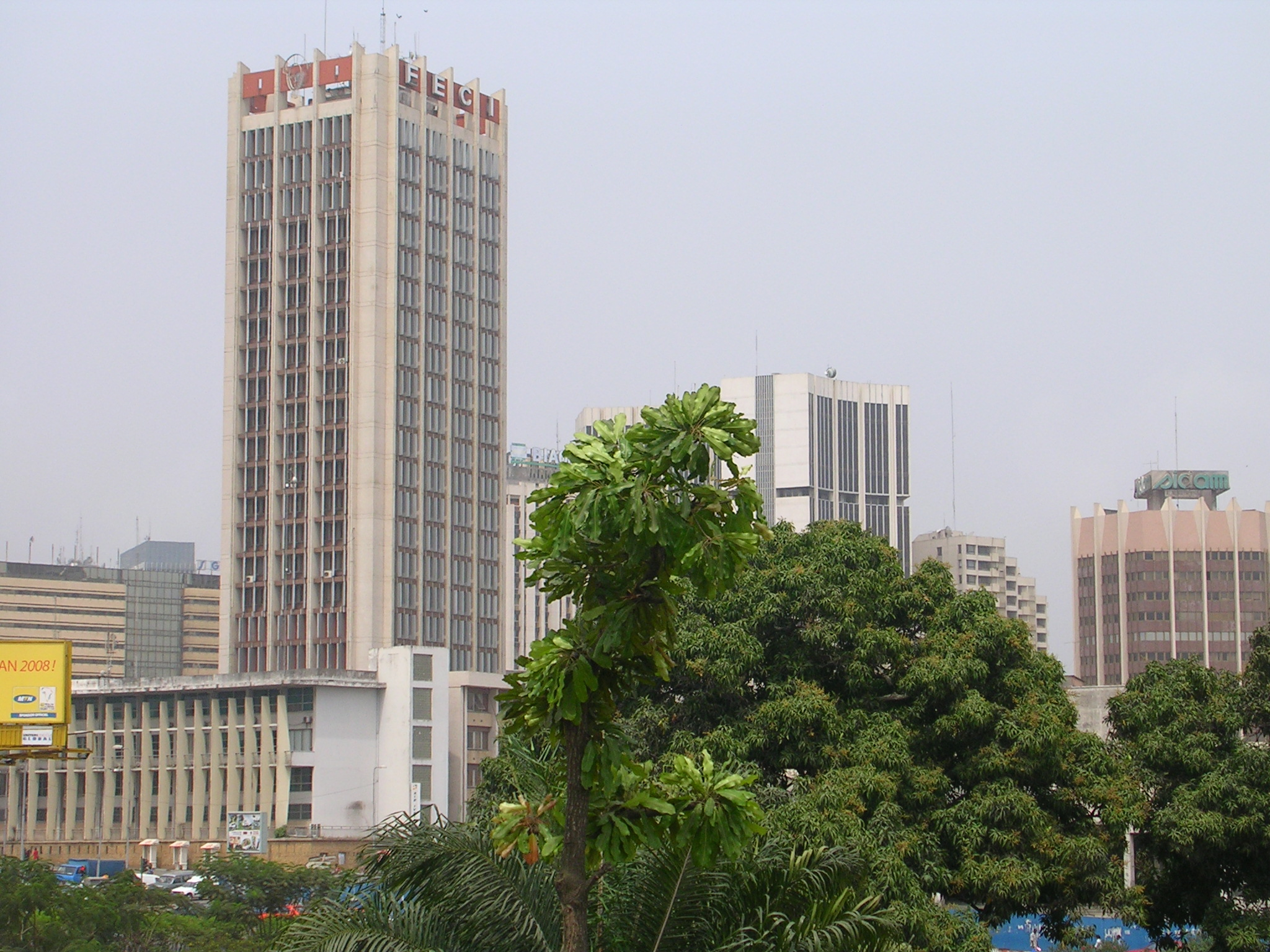 Abidjan, centre of city, Côte d'Ivoire.